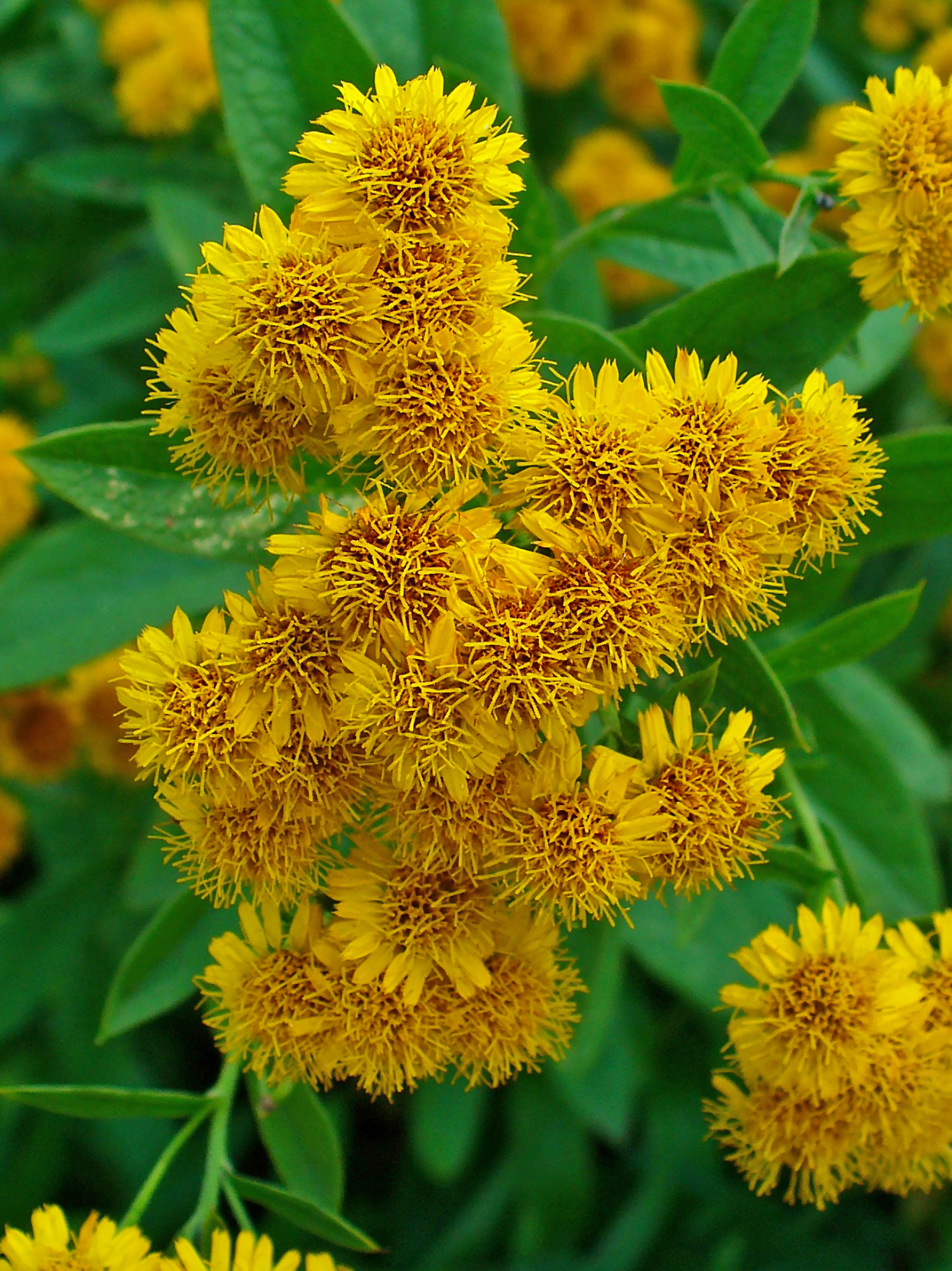 Inula germanica, Asteraceae, German Inula, inflorescences; Botanical Garden KIT, Karlsruhe, Germany.